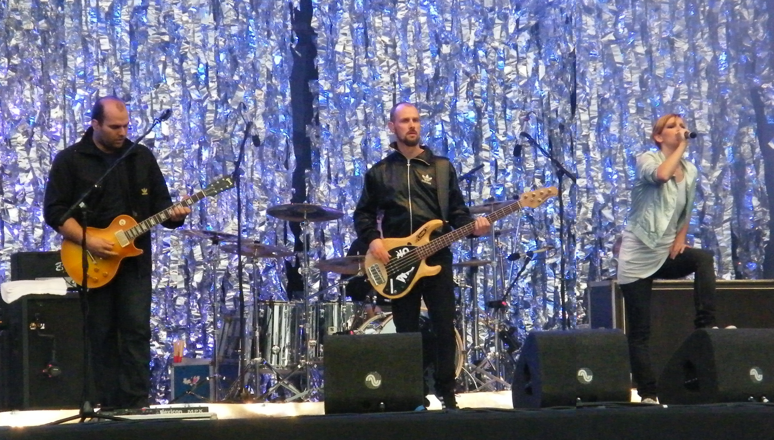 Guano Apes in concert at the Bospop2009 musicfestival in Weert the Netherlands